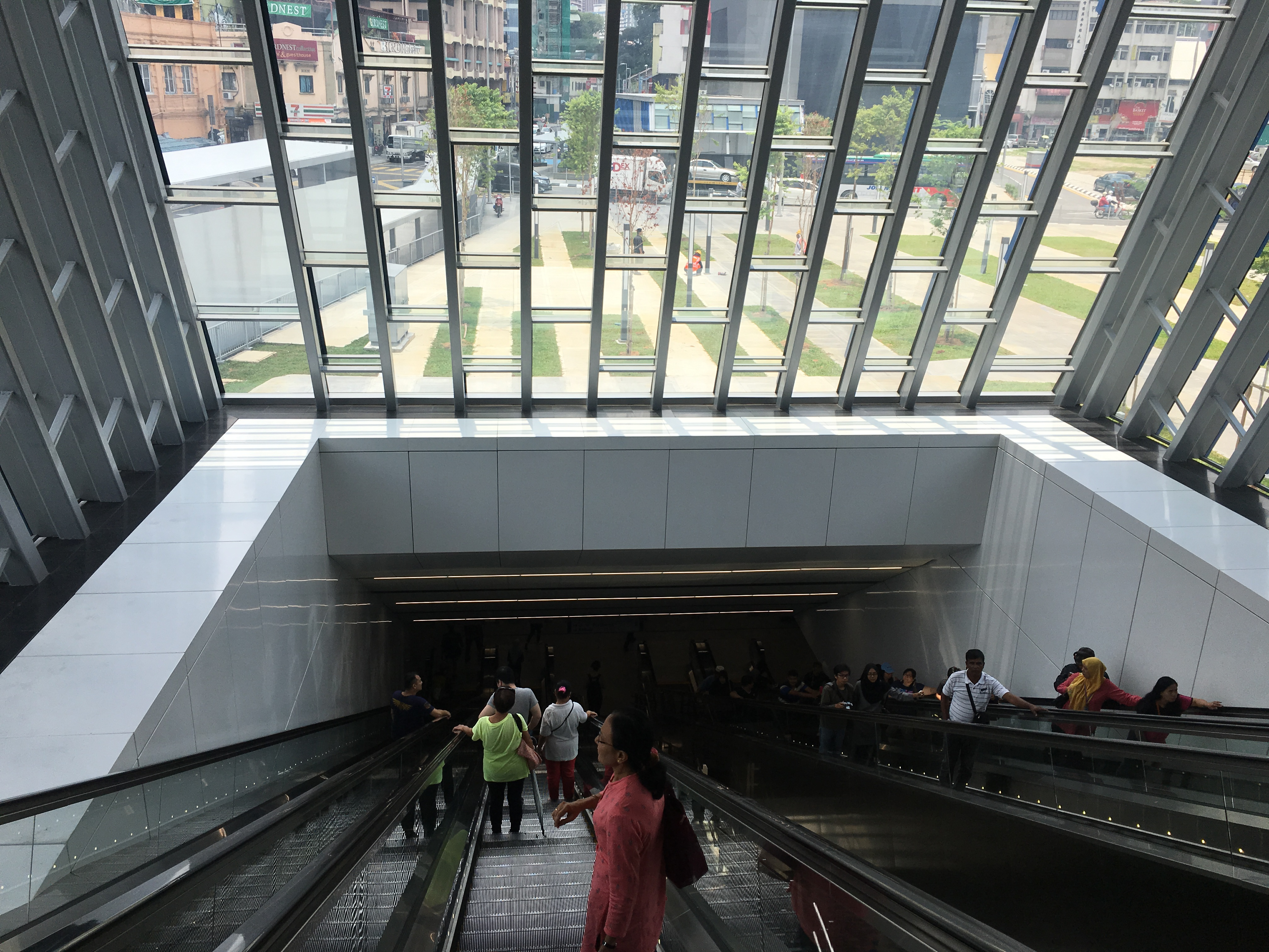 Escalators and stairs from the LRT-MRT link bridge leading down to the Pasar Seni MRT Station Concourse Level paid area.